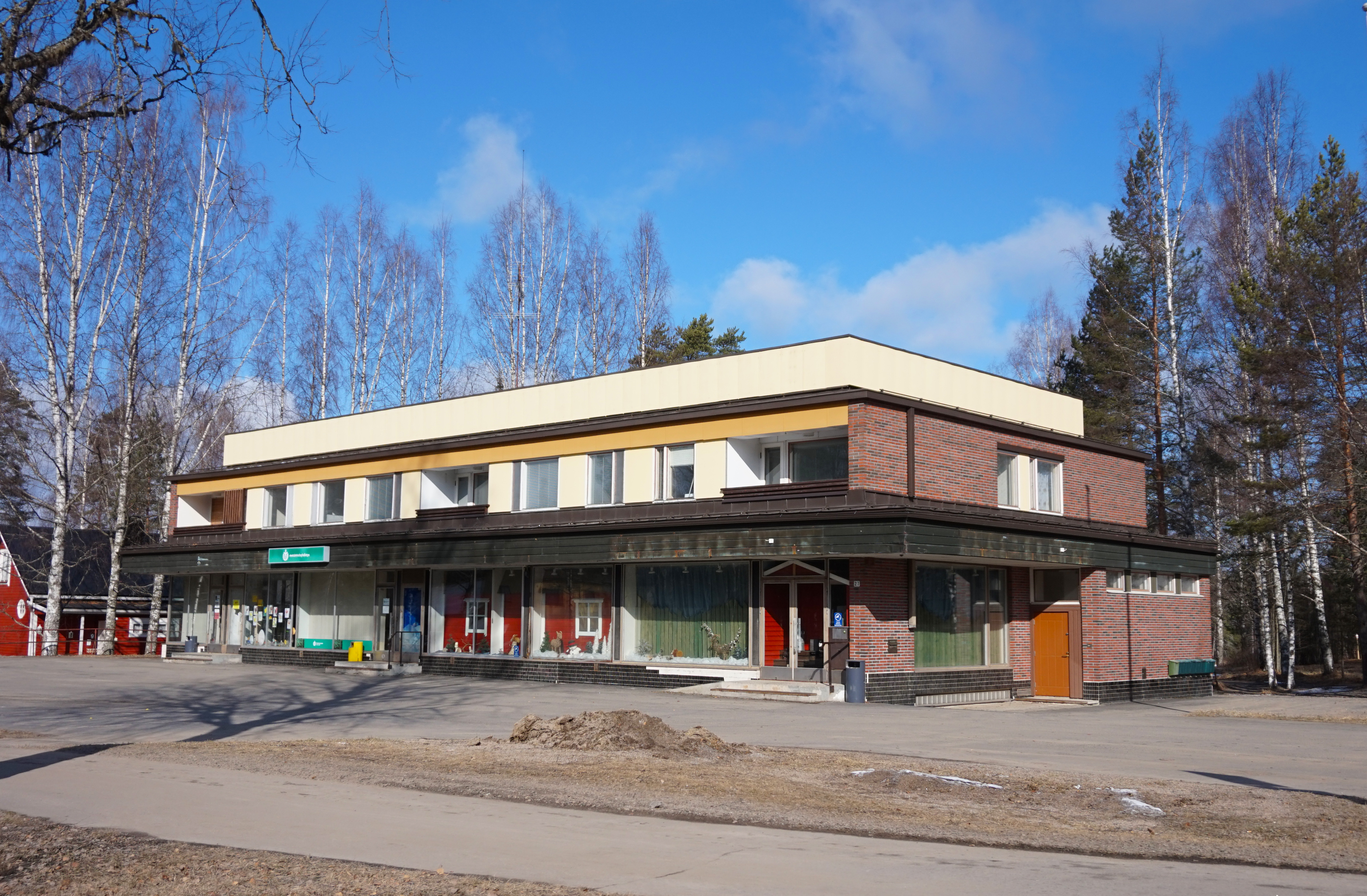 Keskustie 27 in Multia, Finland.This photograph was taken with a Sony ILCE-5000